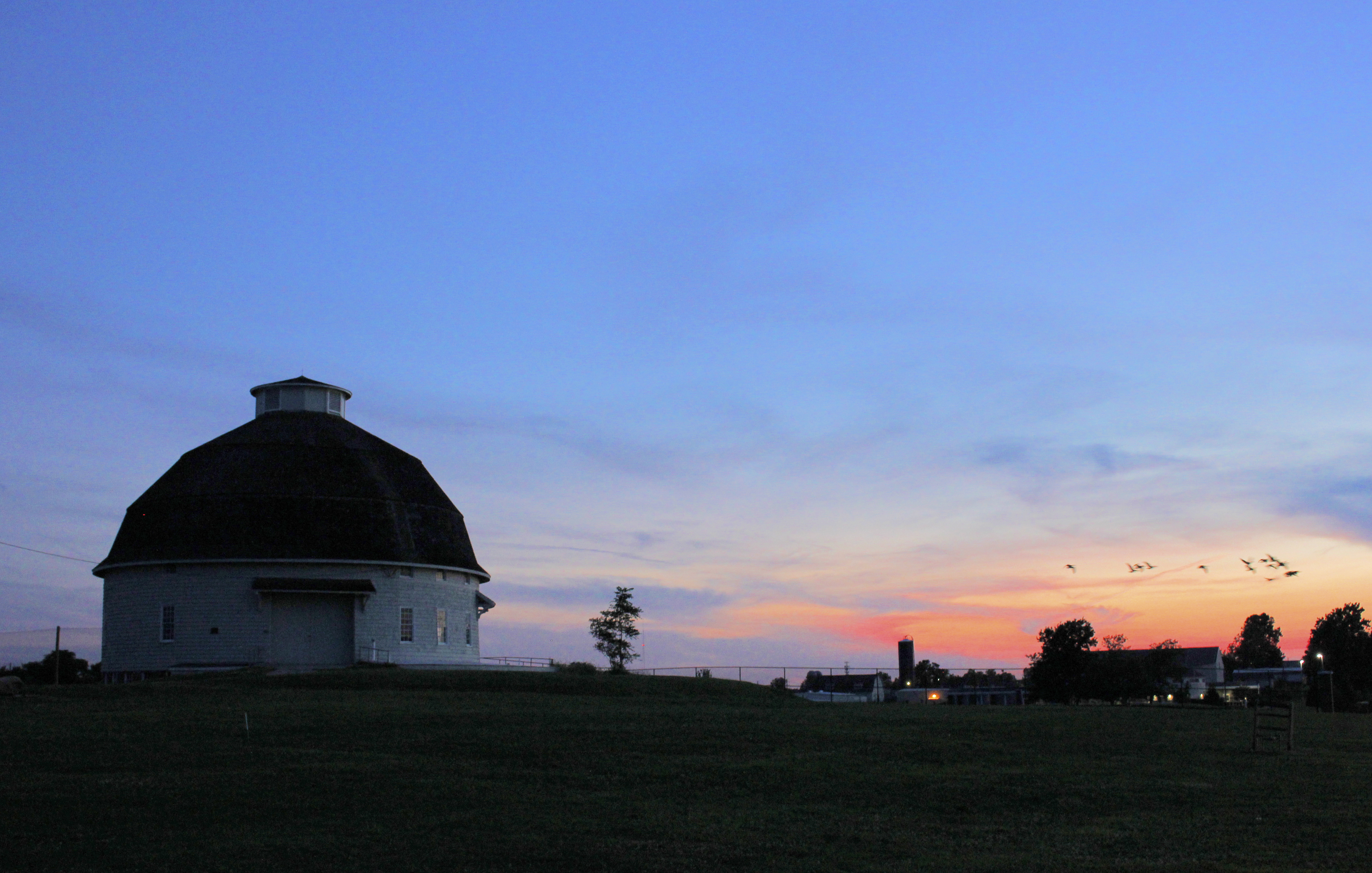 Round Barns in Illinois Thematic Resources found at the University of Illinois Experimental Dairy Farm Historic District